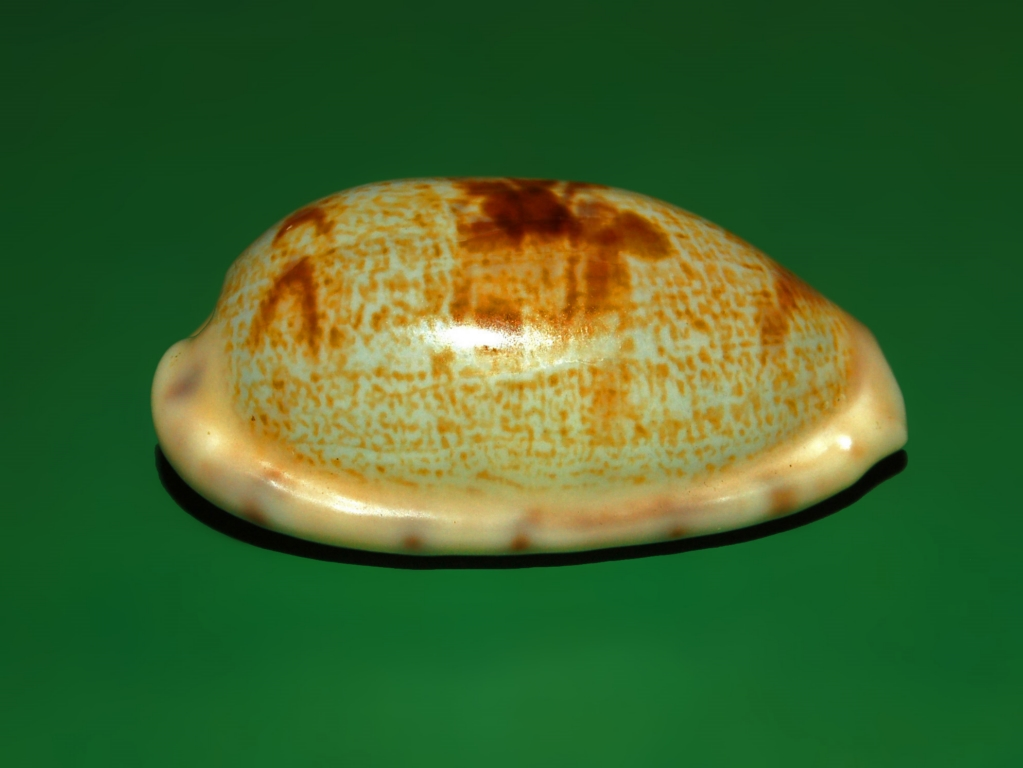 Talostolida teres (Gmelin, 1791) (synonym: Blasicrura teres)